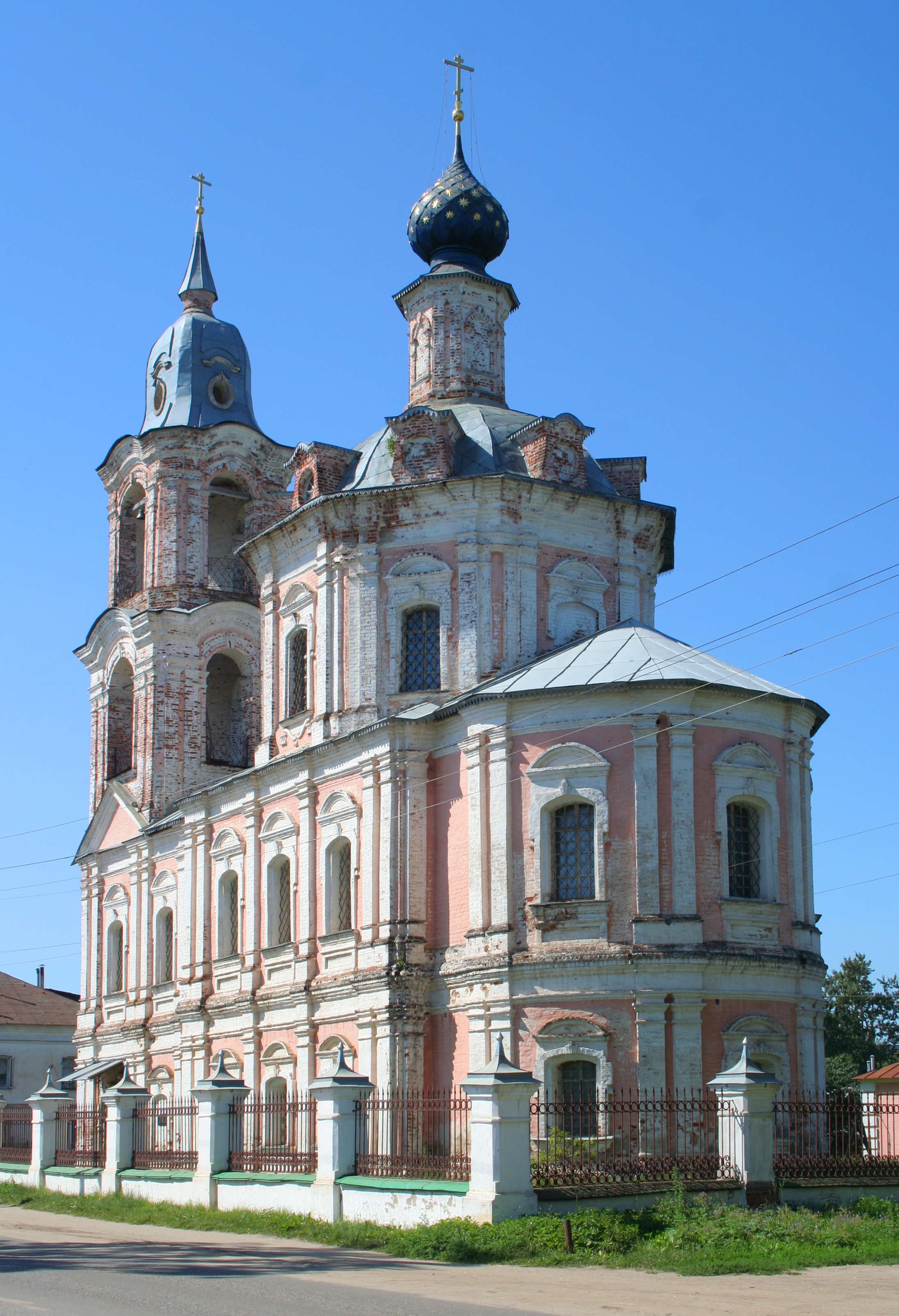 Old town of Nerekhta, Kostroma Oblast, Russia. Church of the Resurrection (built in 1770—87).